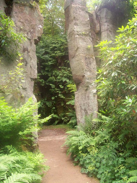 Quarry Garden, Belsay Hall When Belsay Hall was built the stone was taken from the grounds. This has left a beautiful Quarry Garden which has a very special micro climate of its own.